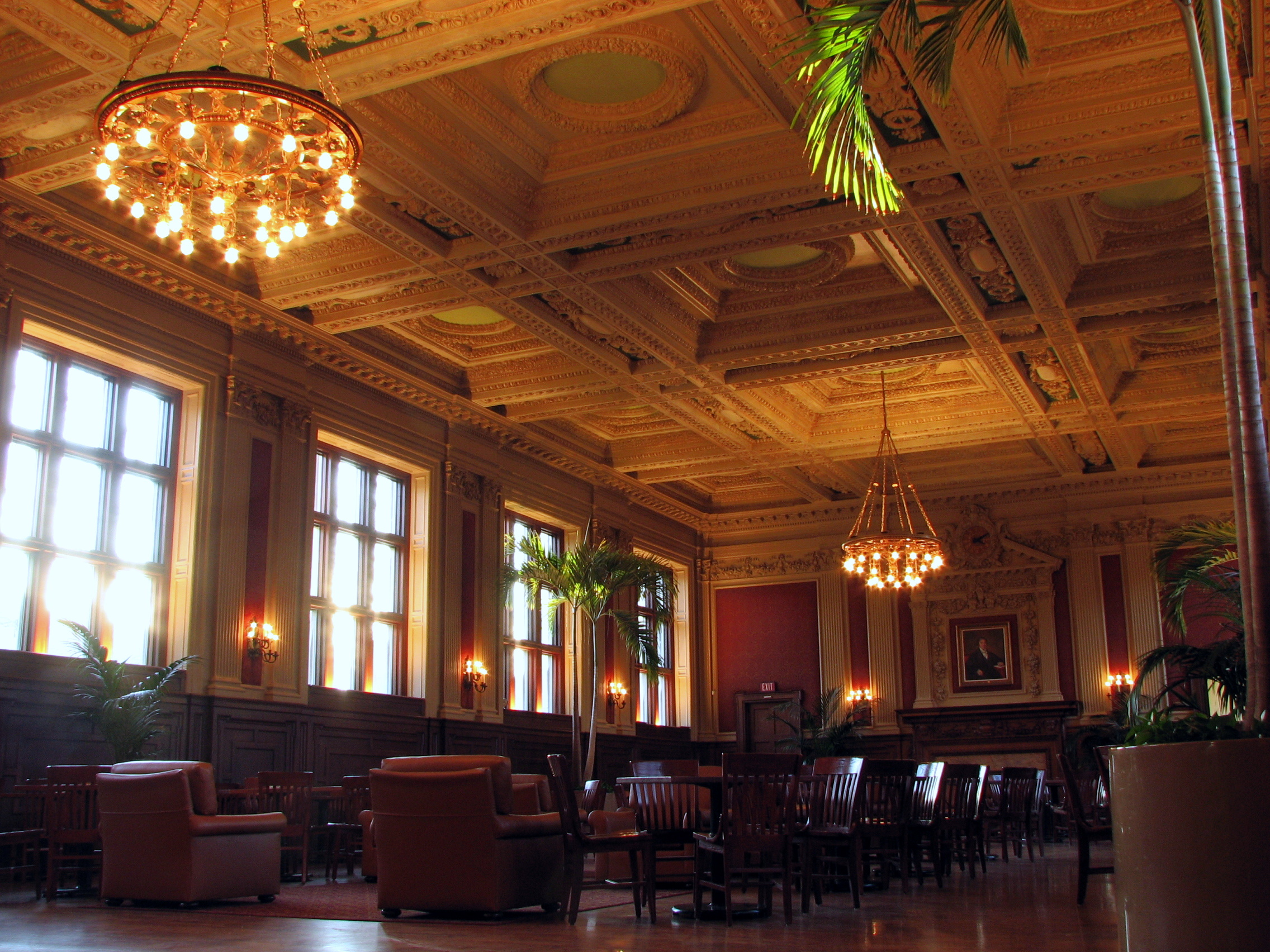 The inside of Holmes Lounge Taken on Jan. 6, 2007 MIN, Baili 06:21, 4 February 2007 (UTC)